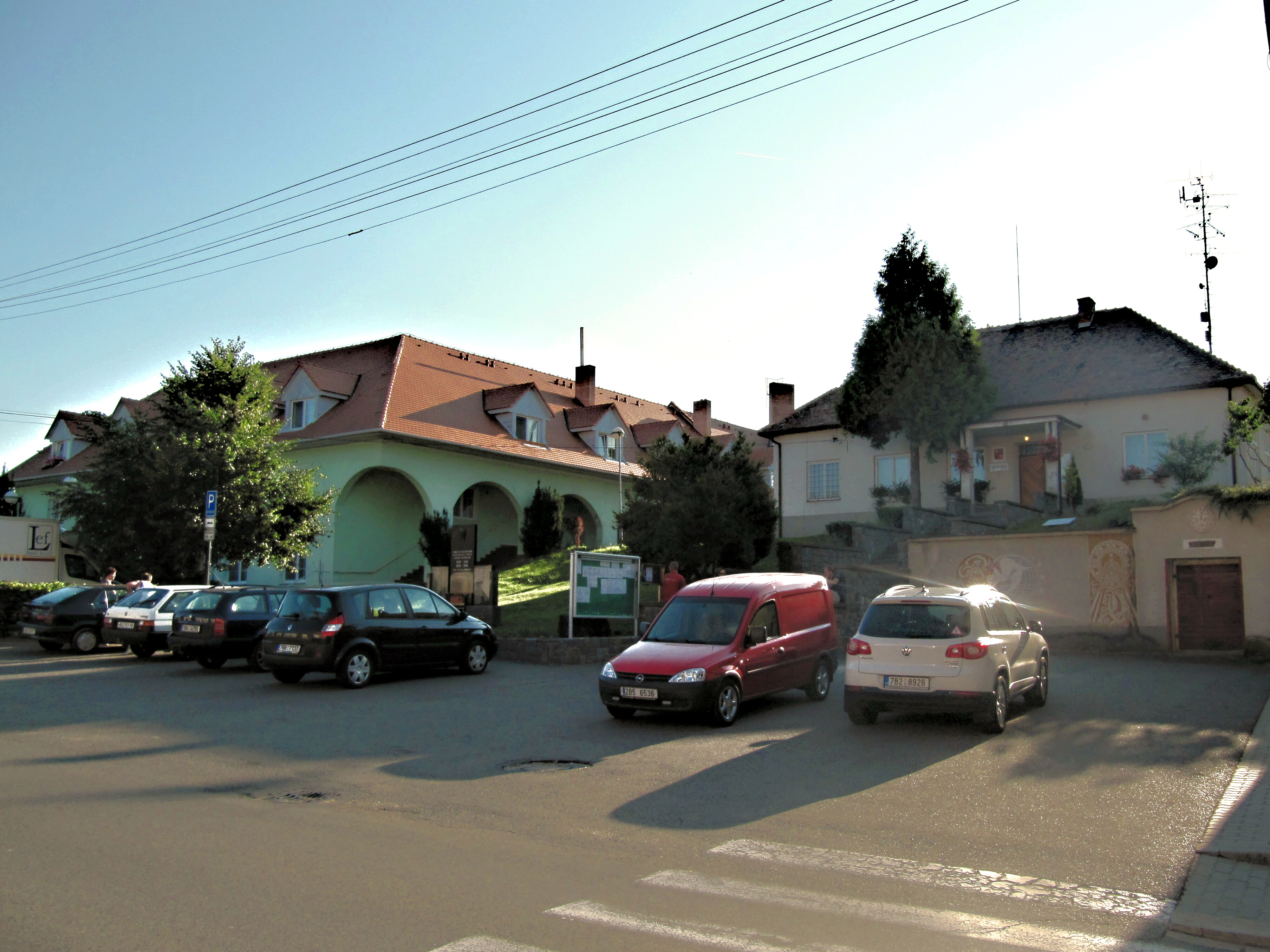 Vacenovice in Hodonín District, Czech Republic. Common with the municipal office.